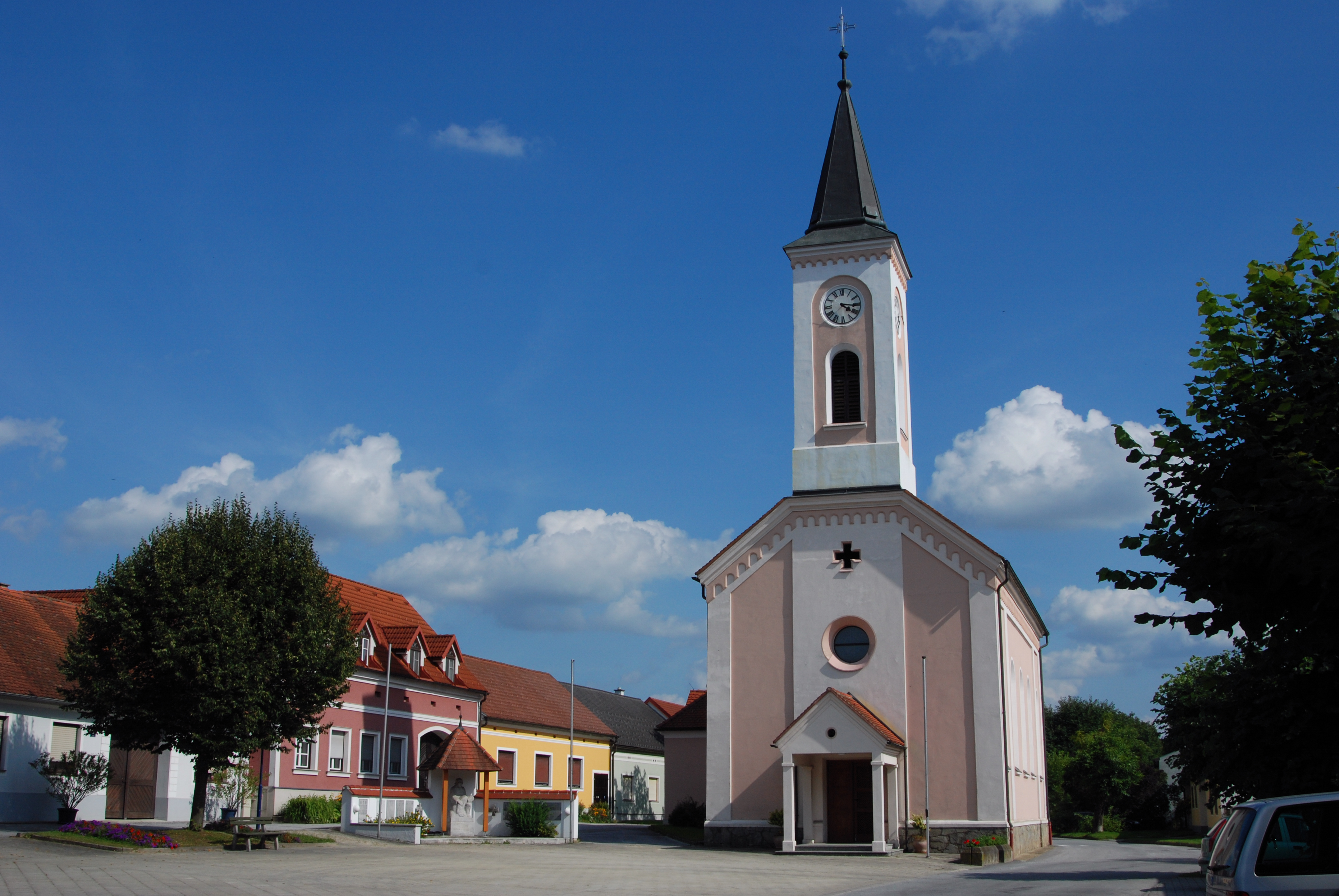 Church Rudersdorf